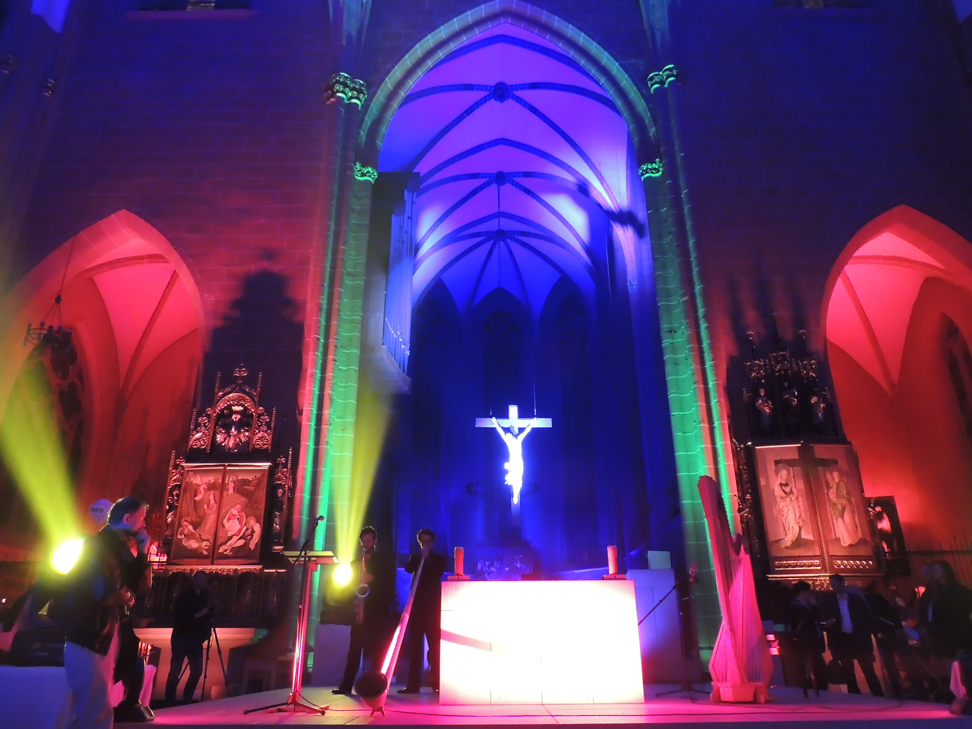 Composition of light and music by Simon Kunst (alphorn) and Peter Klohmann (saxophone) during the Luminale 2014 in the Frankfurt Cathedral, performed by the Youth Church JONA and the Coordination Group Young Adults